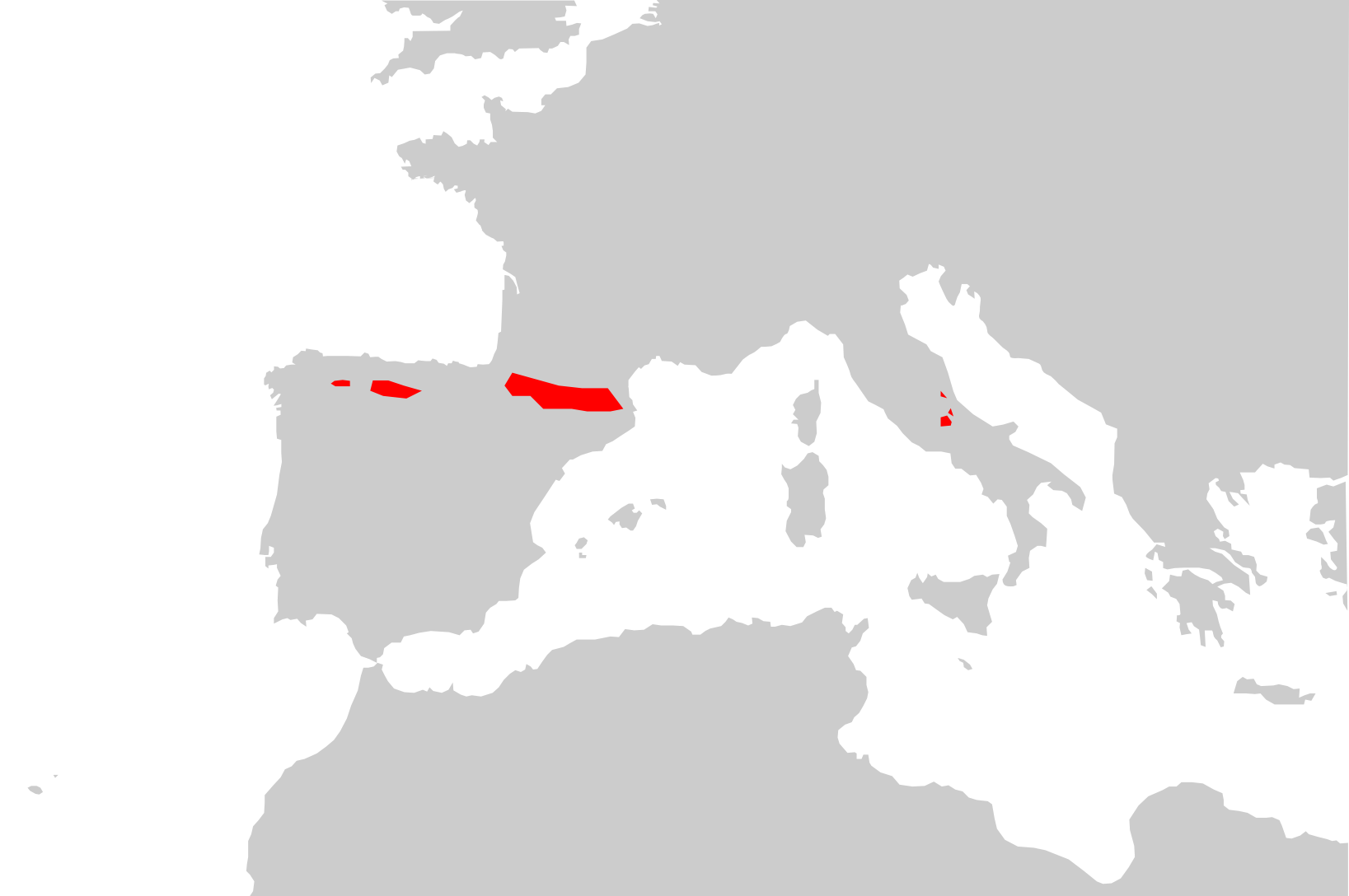 Rupicapra pyrenaica range map.